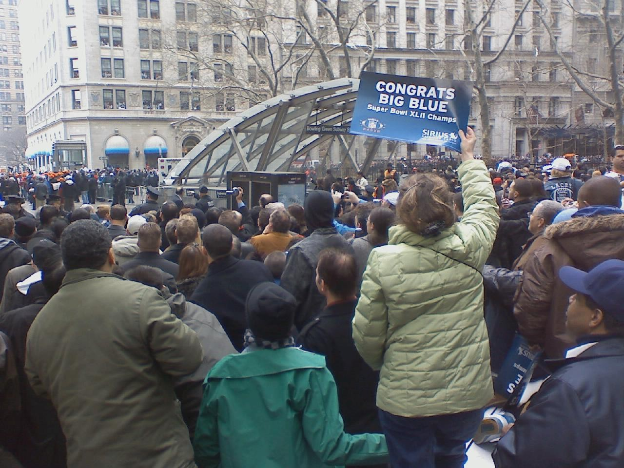 The Giants tickertape parade crowd